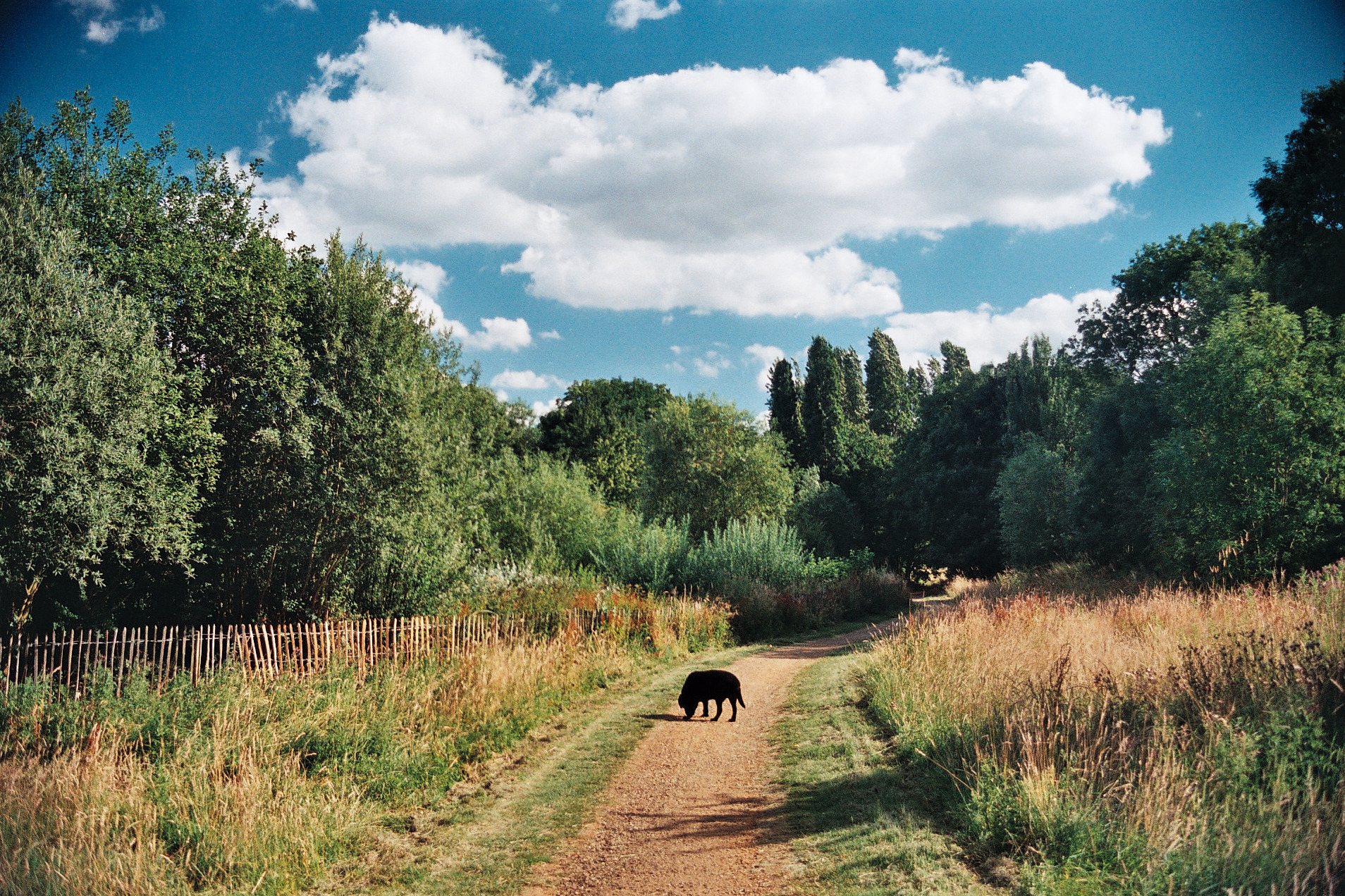 Old Race Course Conservation Area